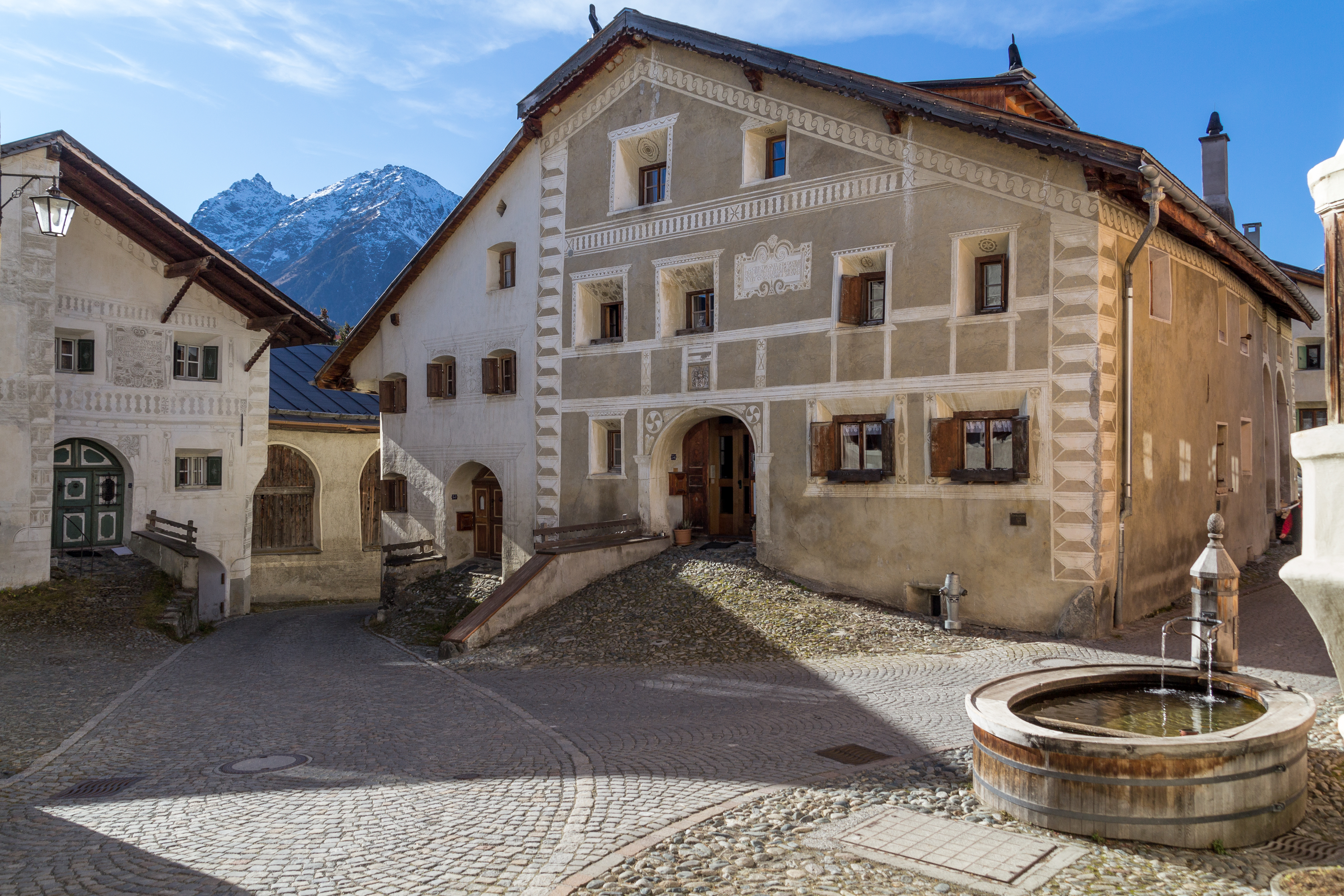 Typical rural house in Lower Engadine, Switzerland